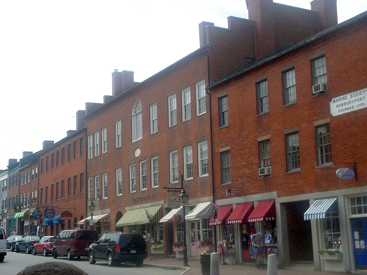 Along State Street between Liberty and Essex Streets in Newburyport, Massachusetts, United States, within the boundaries of the Newburyport Historic District.